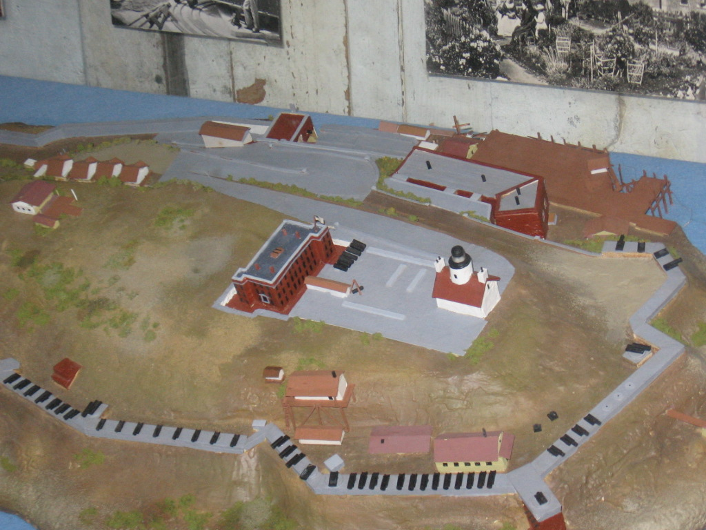 A model of Military Point Alcatraz now on display at Alcatraz Island, showing the original Cape Cod style lighthouse and the 200 ft x 100 ft Citadel (a fortified barracks) to the left of it. Alcatraz's current lighthouse is in approximately the same position. Most of the Citadel was razed to make way for the main cell block (built 1909-12) that now stands on the site, though the Citadel's bottom floor (which was below ground level owing to the fact the building was situated in a sunken pit or "moat" to make it more difficult to attack) was incorporated into the new structure. The accompanying plaque reads: "Military Point Alcatraz, 1866-1868 This model represents Alcatraz Island during its most heavily armed period, with 108 guns mounted. Model researched, designed and constructed by Park Ranger Rex Norman. Model not to scale"